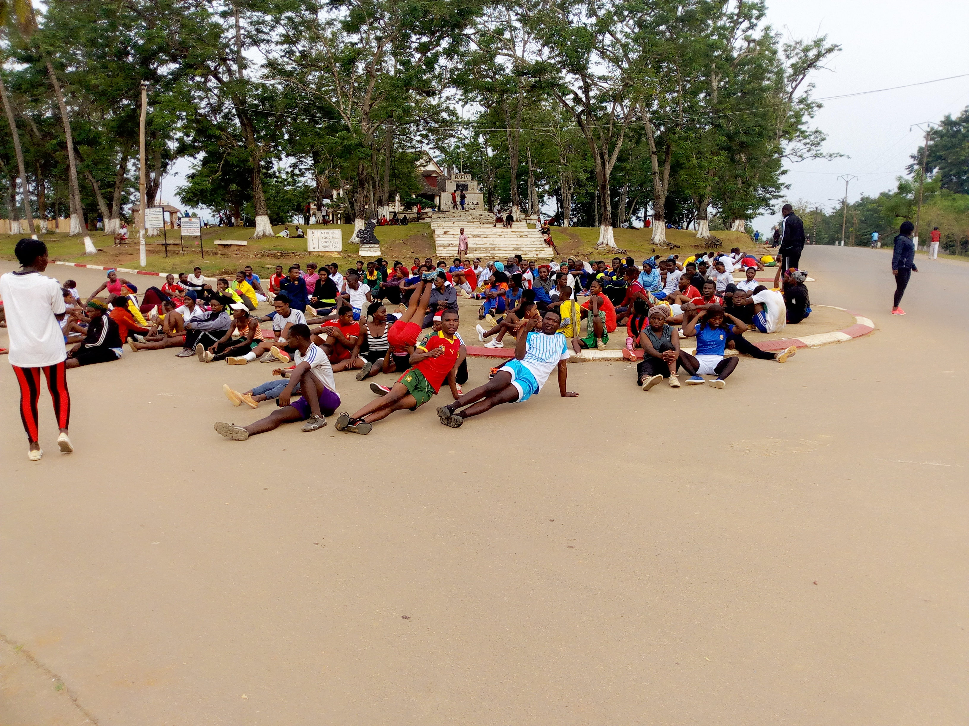 Les weekends à Bafia, les populations d'âges et d'origine différents se retrouvent à la place de l'indépendance pour une séance de sport pour tous. This is an image with the theme "Play" from: Cameroon